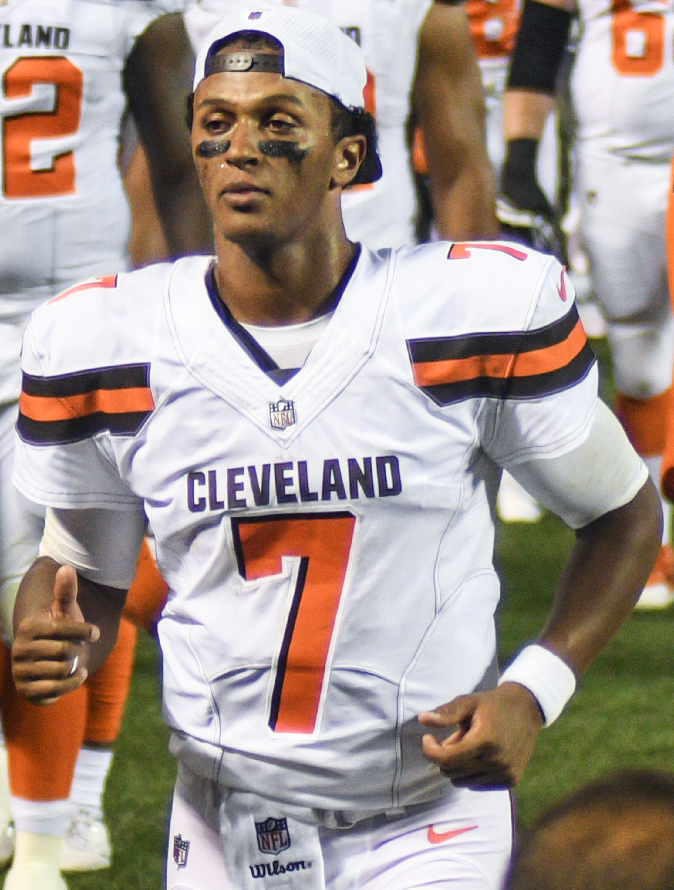 Cleveland Browns vs. New York Giants